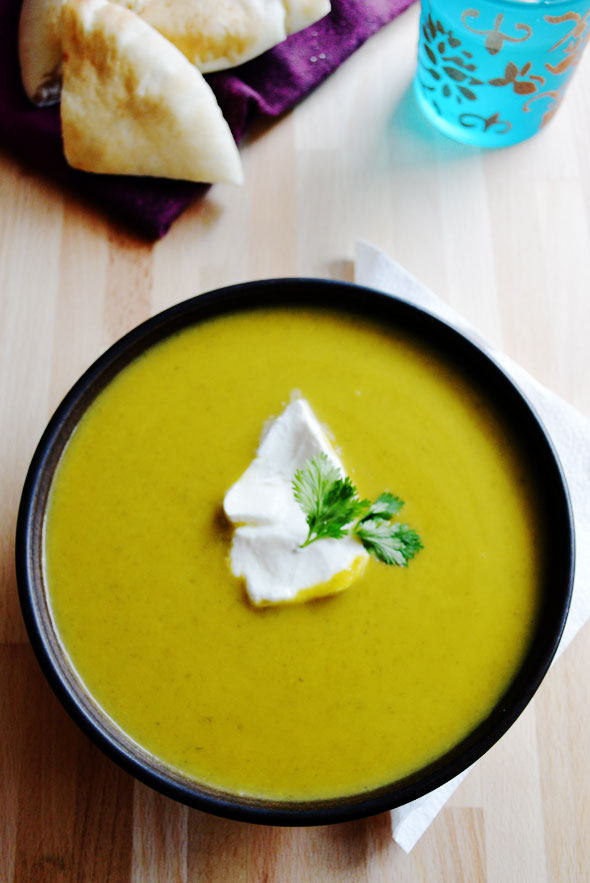 I made this photo for a recipe blog post on how to make pumpkin soup Indian style. You can use it, but please link back to the original post